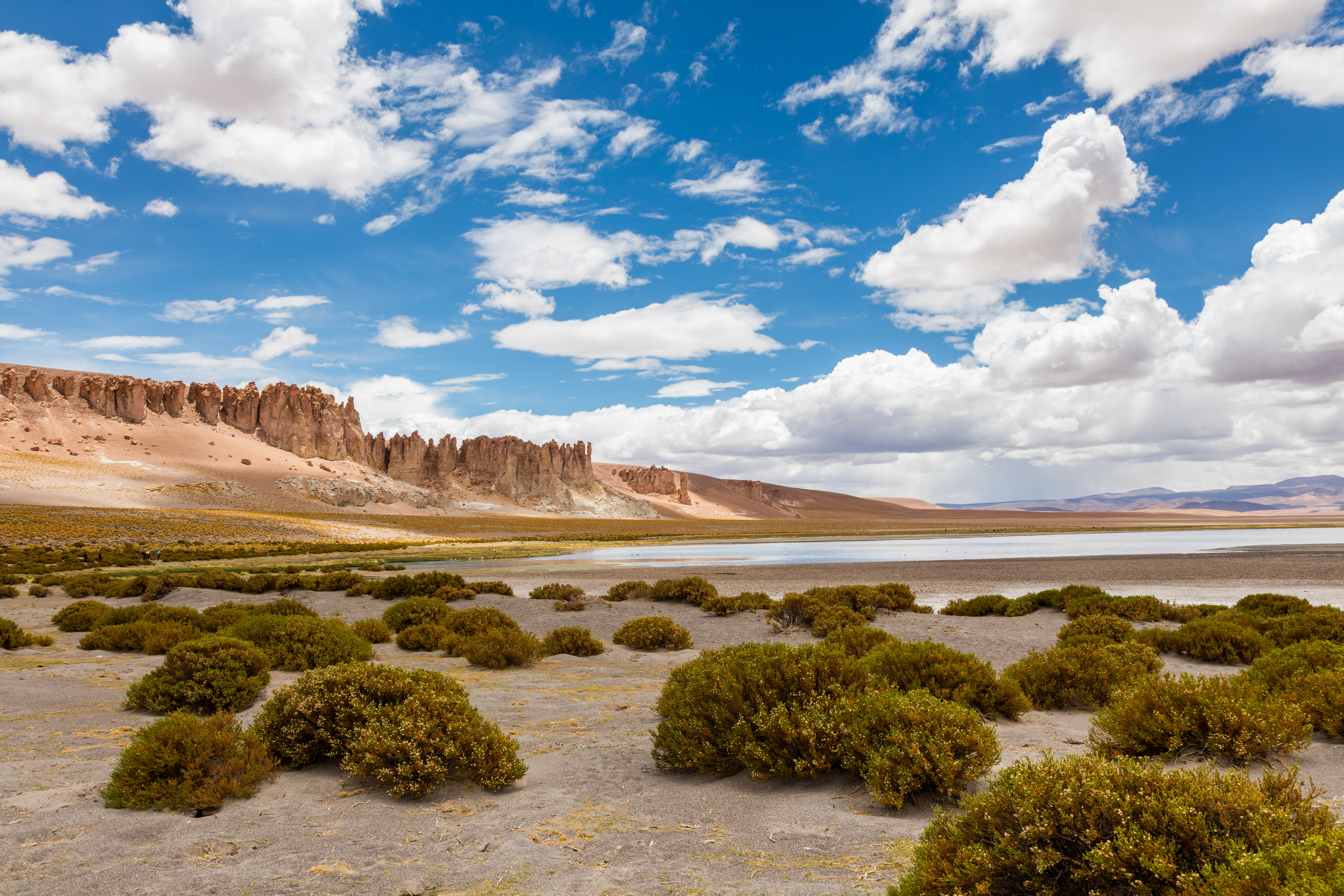 Tara Cathedrals, Chile